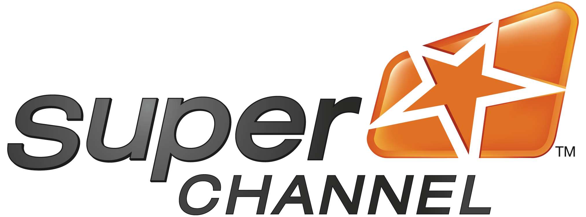 Super Channel Corporate Logo